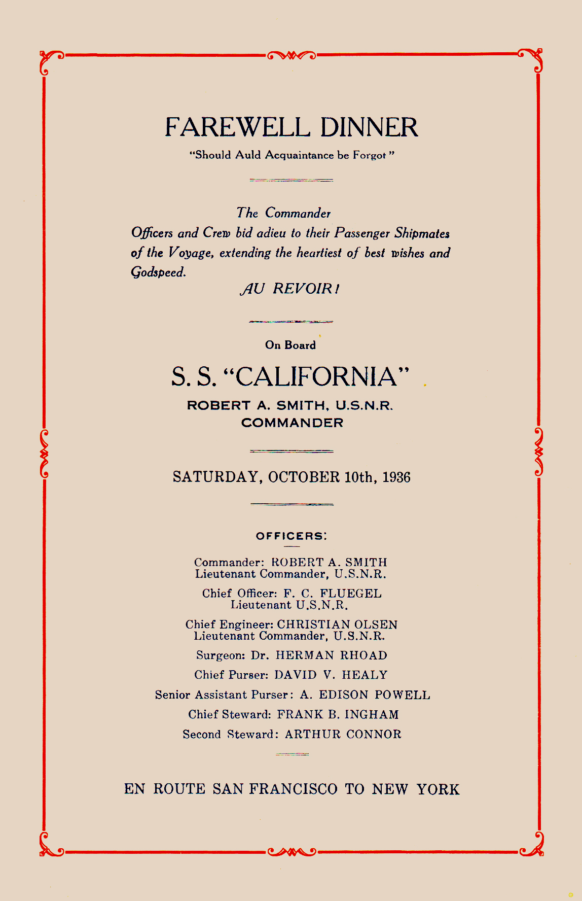 October 10, 1936 Farewell Dinner program on board the Panama Pacific Line S.S. California on the last night of its passage from San Francisco to New York